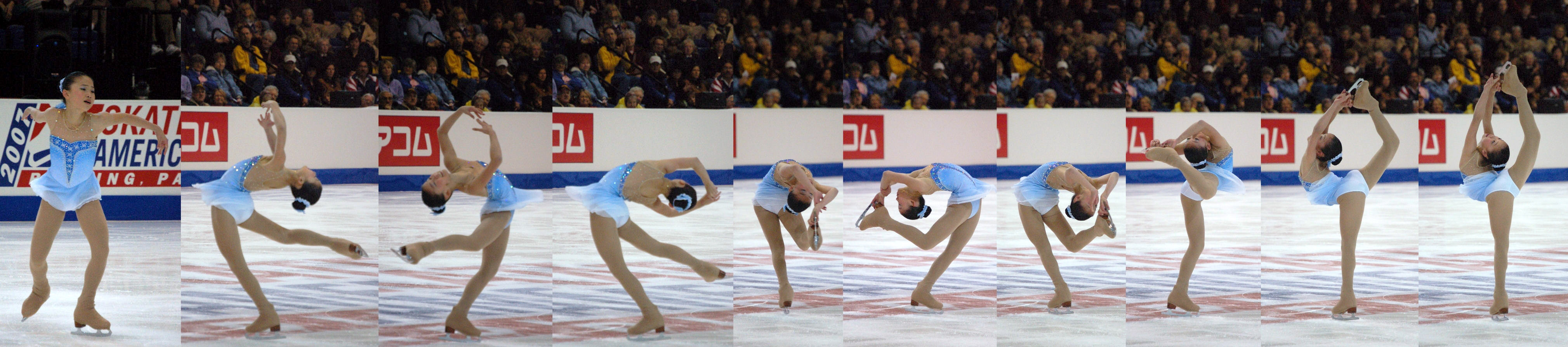 Caroline Zhang performing a combination spin during her long program at 2007 Skate America to the music Ave Maria. Caroline won a bronze medal at this, her first senior international, competition.